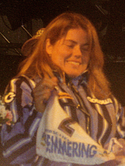 Swedish alpine skier Pernilla Wiberg during the public draw for the second slalom in Semmering (Austria) on December 29th, 1996.